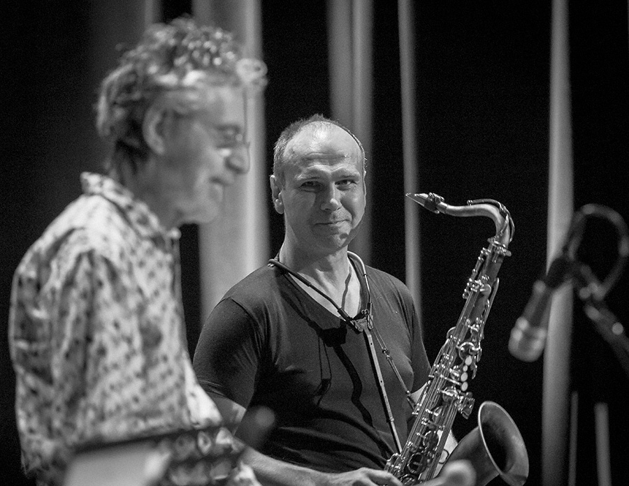 Mike Mainieri and Bendik Hofseth performs at Cosmopolite in Oslo on 04. May 2016. Backed by Jazzcode and later in the concert by Cosmopolitans. The musicians had earlier that week recorded three albums in a studio in Oslo.Lineup:Mike Mainieri (vibraphone)Bendik Hofseth (tenor saxophone)Jørn Øien (piano)Bruno Raberg (double bass)Sidiki Camara (percussion)Carl Størmer (drums)Jacob Young (guitar)Helge Iberg (piano)Paolo Vinaccia (percussion)